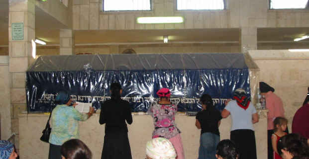 Baba Sali tomb in Netivot, women's half